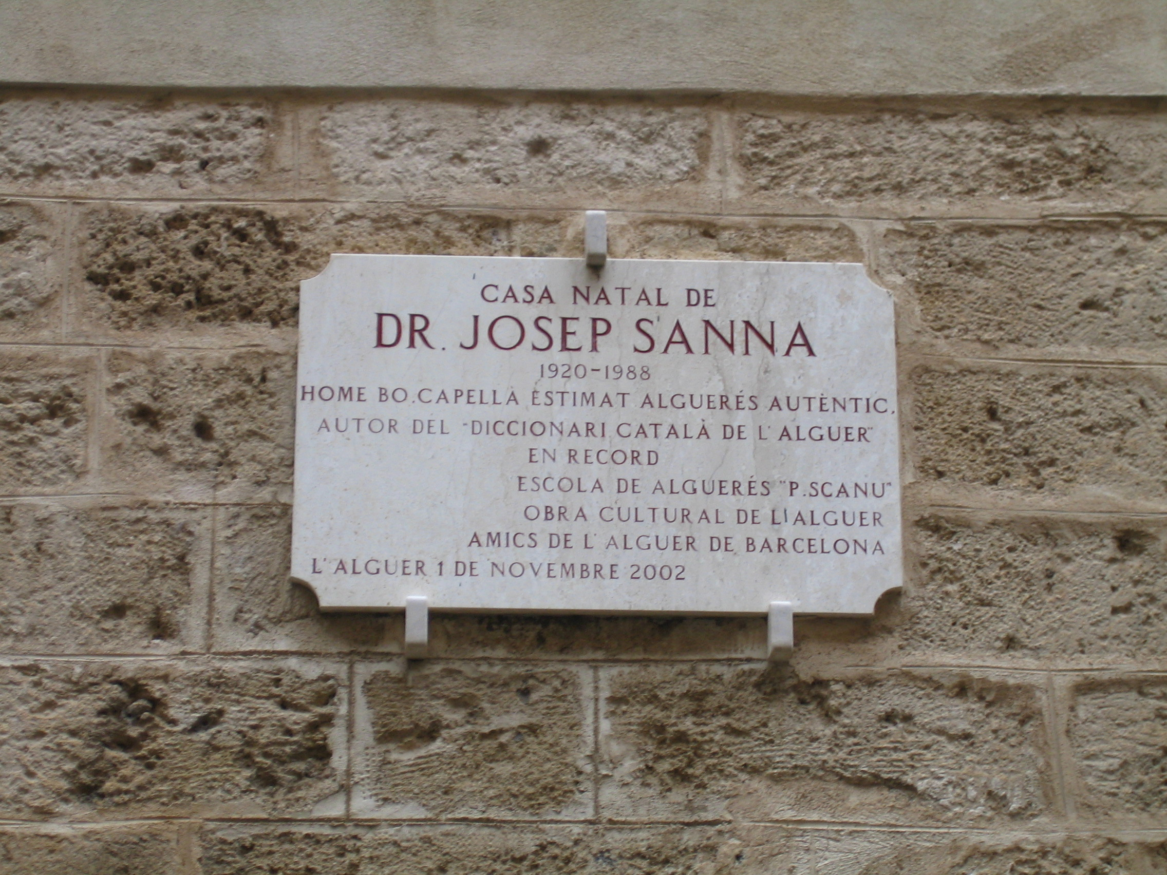 Commemorative plaque in honor of Algueresi Joseph Sanna. This says: "Birthplace of Dr. Joseph Sanna (1920-1988) A good man. Estimated priest. Authentic Algueresi. Author of the catalan dictionary of Alghero. In memory: Catalan school "Pascual Scannu". Obra Cultural of Alghero. Friends of Alghero from Barcelona. Alghero 1 November 2002.